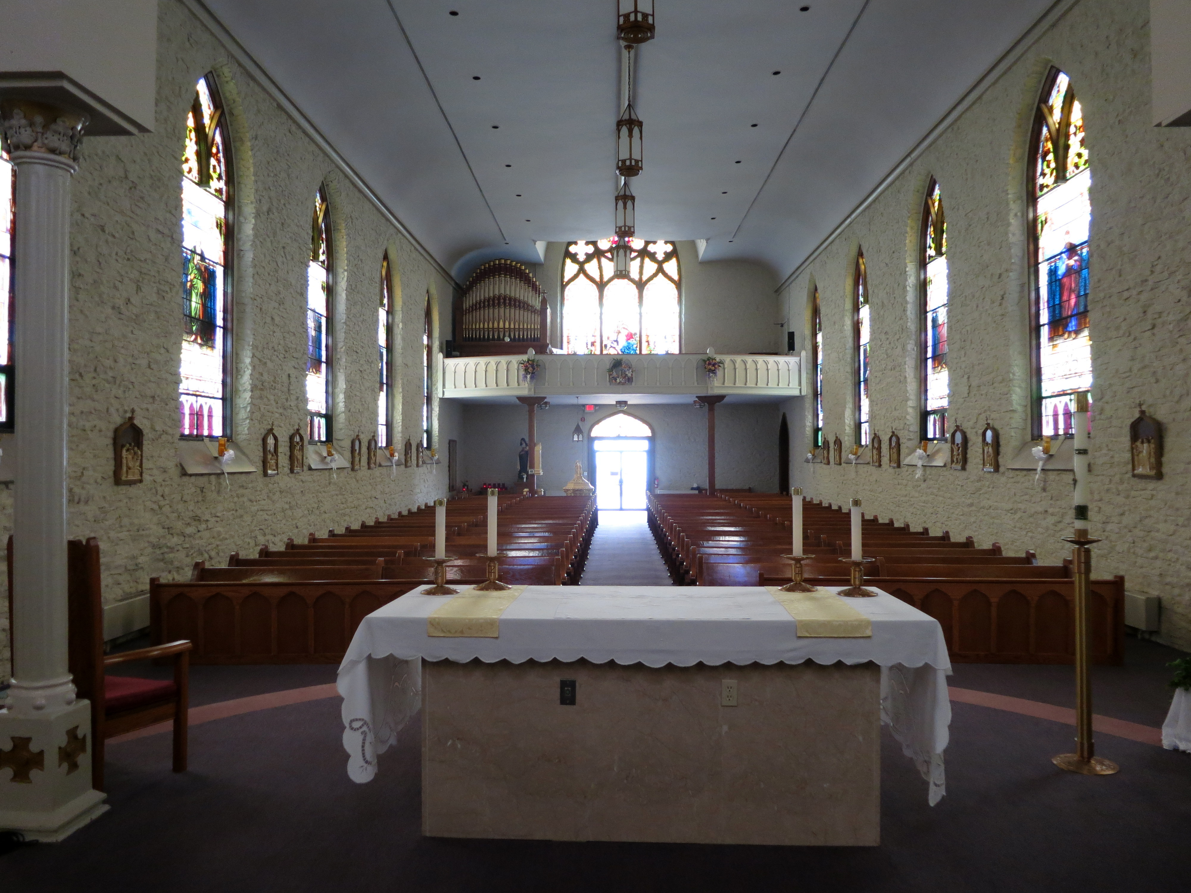 Holy Angels Catholic Church (Sandusky, Ohio) - nave, rear